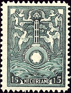 Marine insurance stamp of the Netherlands (1921), depicting a floating safe attracting gulls. 15 cents, Scott #GY1.